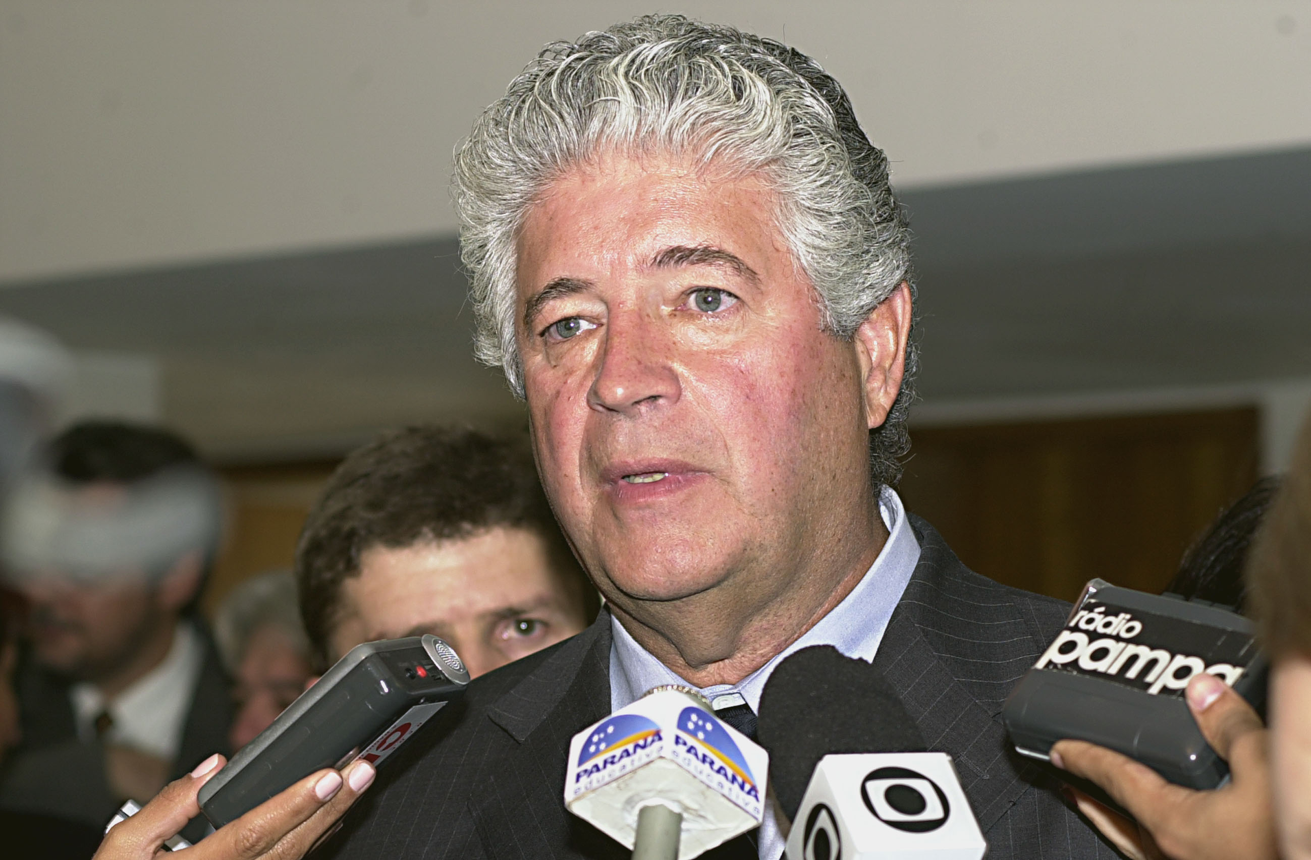 Roberto Requião, the governor of Paraná and the former-mayor of Curitiba.